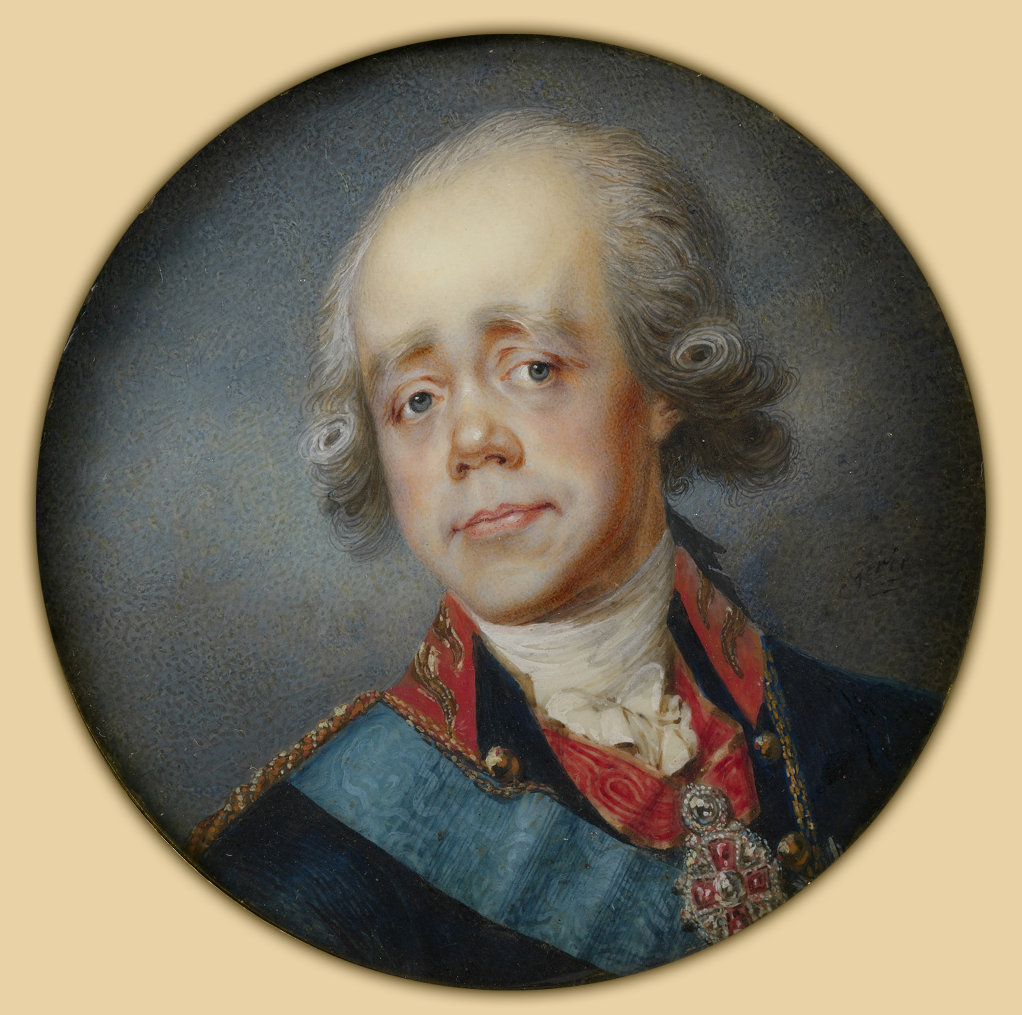 Paul I, Tsar of Russia